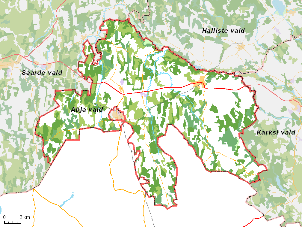 Map of municipality in Estonia